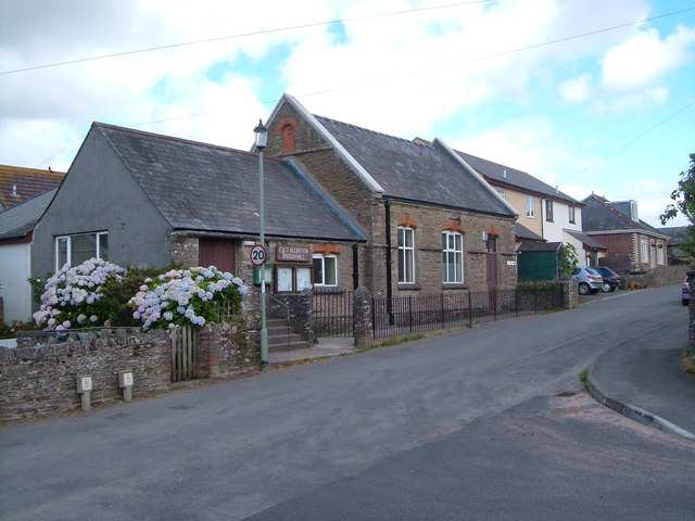 East Allington Parish Hall. Seen from across the main village street.